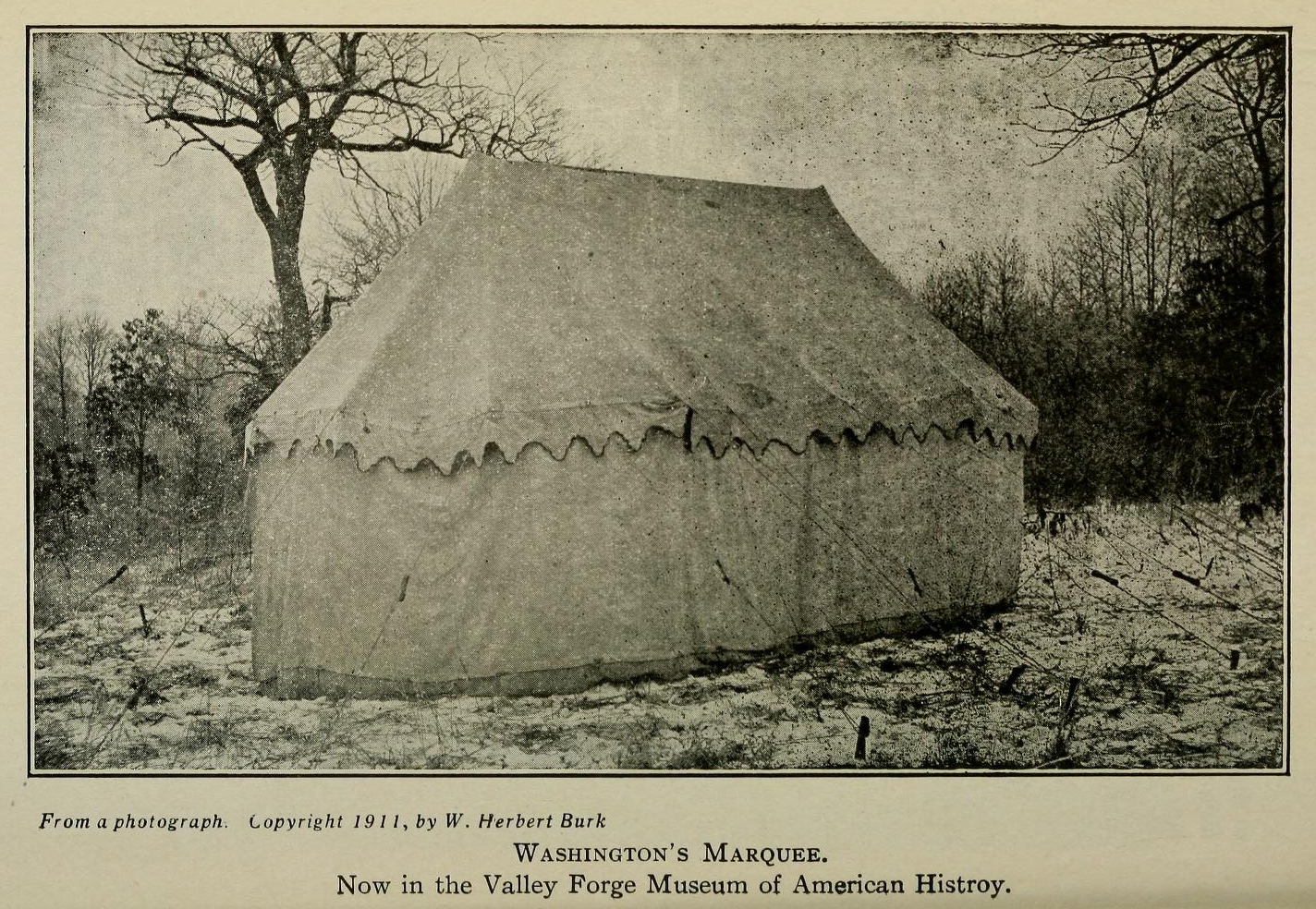 Washington's Marquee. General George Washington used this tent throughout the American Revolutionary War. It is now in the collection of the Museum of the American Revolution, Philadelphia, Pennsylvania.